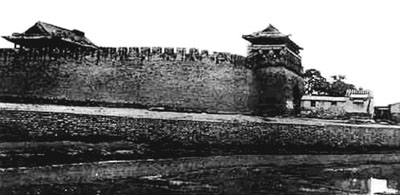 Youanmen in the early 1920s, Beijing